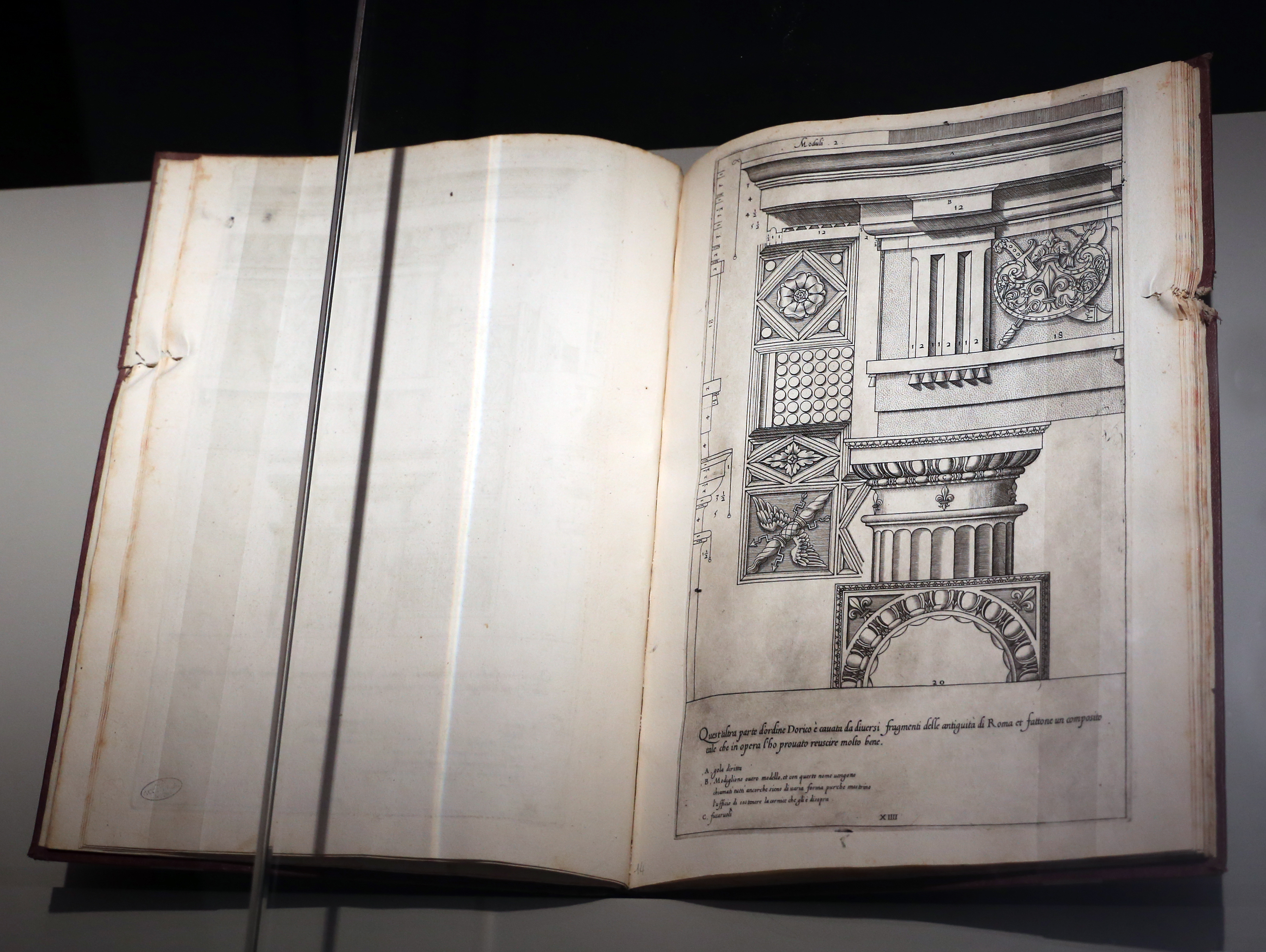 House of Gonzaga